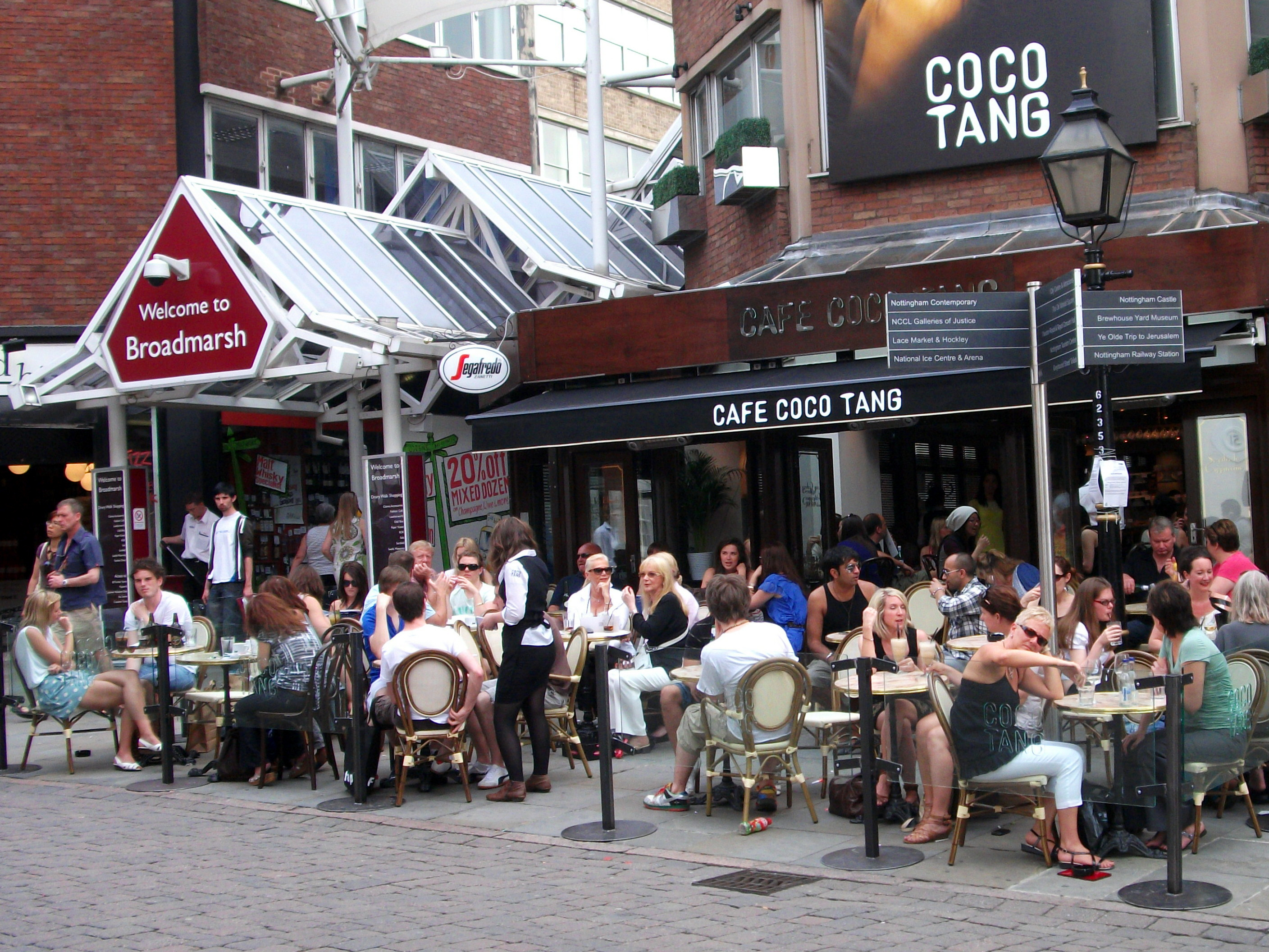 With the warm weather making it fit to go out onto the streets, here are a number of shots of thriving city centres, in Manchester and Nottingham. This newish bar on Middle Pavement is getting plenty of business right now.